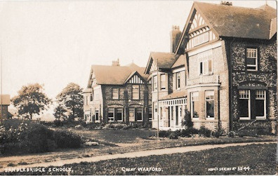 Old postcard of Sandlebridge Schools